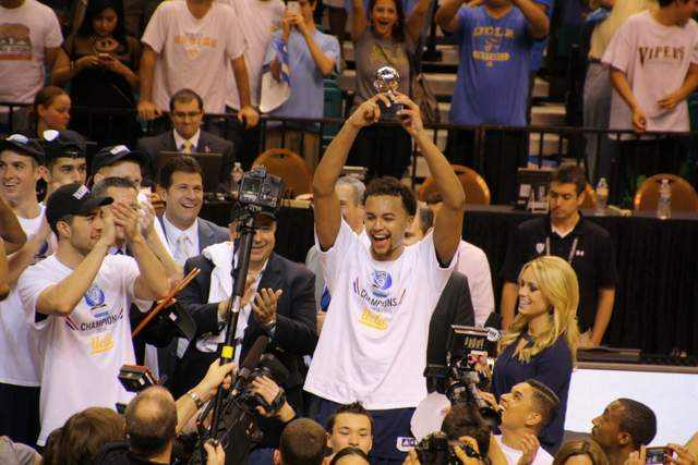 Kyle Anderson holds his Most Outstanding Player trophy from the 2014 Pacific-12 Tournament